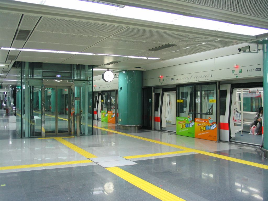 深圳地鐵羅湖站-1號線月台 Line 1 Platform of Luo Hu Station, SZ metro